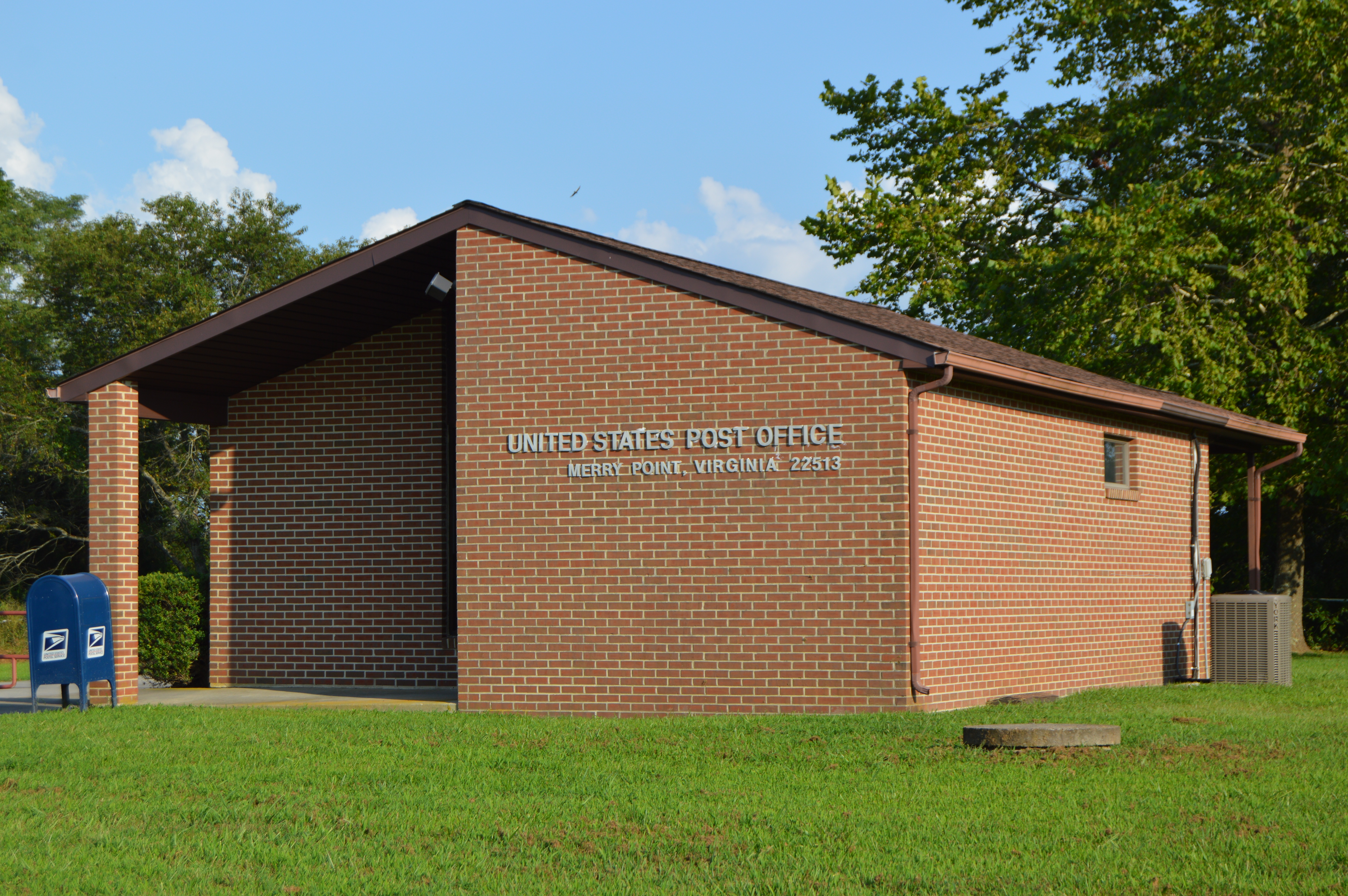 Front of the Merry Point post office, located on Merry Point Road at Merry Point in Lancaster County, Virginia, United States.